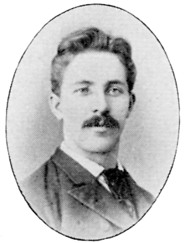 Image scanned from the book "Svenskt Porträttgalleri XX - Arkitekter, Bildhuggare, Målare m.fl. " ("Swedish Portrait Gallery XX - Architects, Sculptors, Painters, ") published 1901